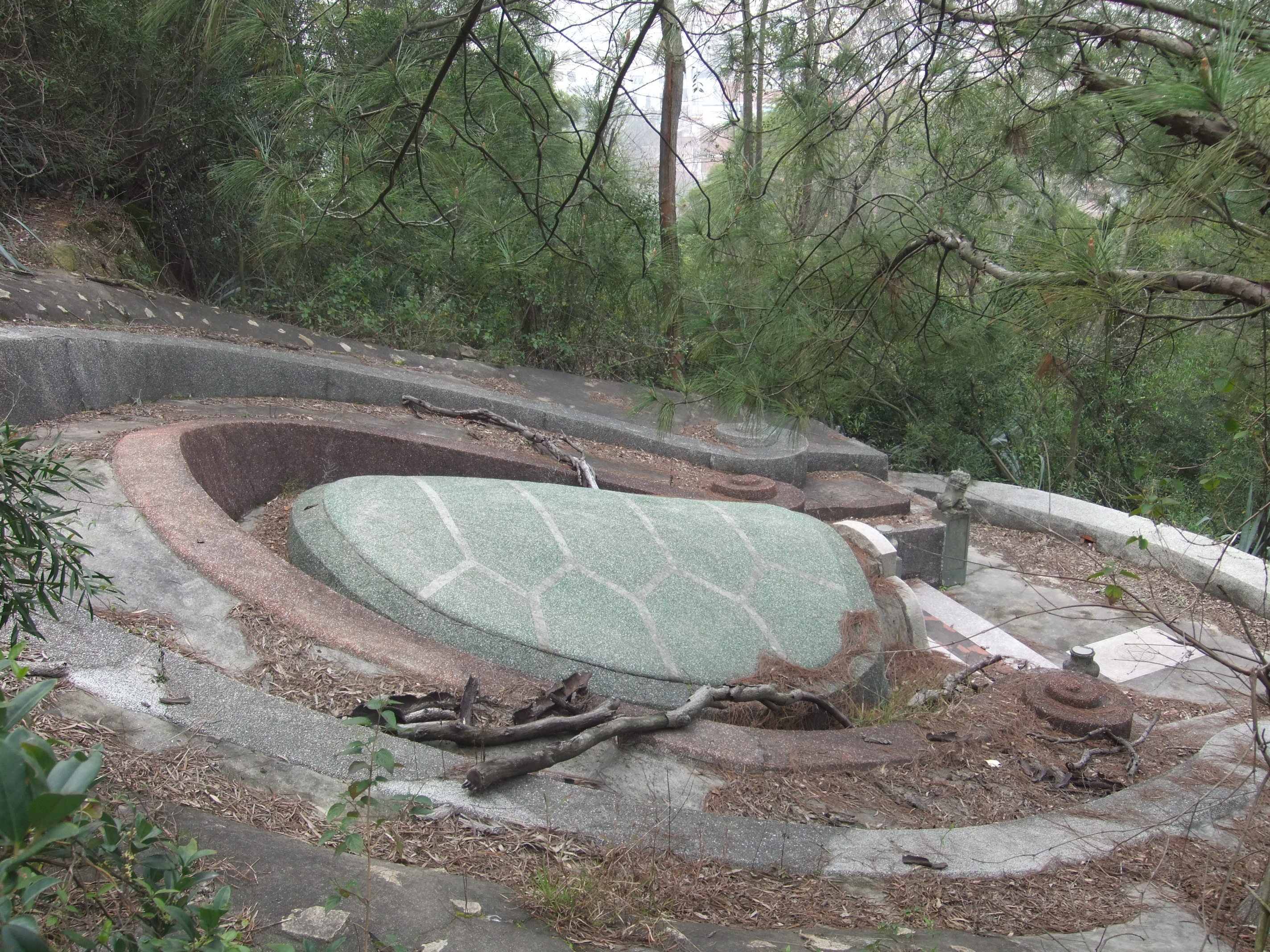 Tombs in Lingshan Islamic Cemetery (Lingshan Park) in Quanzhou. Some are classic Fujian "turtle-back tombs"; others, of a hybrid variety, with the central "turtle back" replaced with an Islamic-style sarcophagus. And there are some tombs that are just a small earth hill...